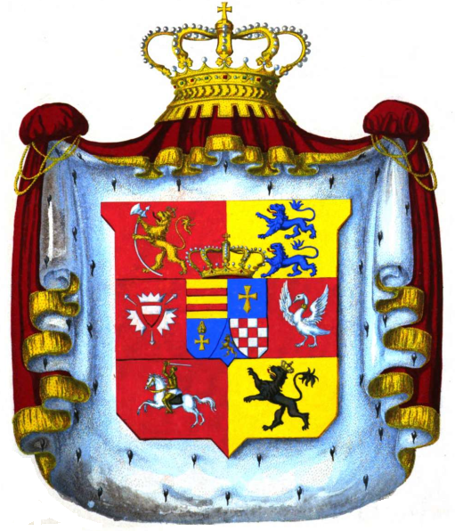 Grand Duchy of Oldenburg